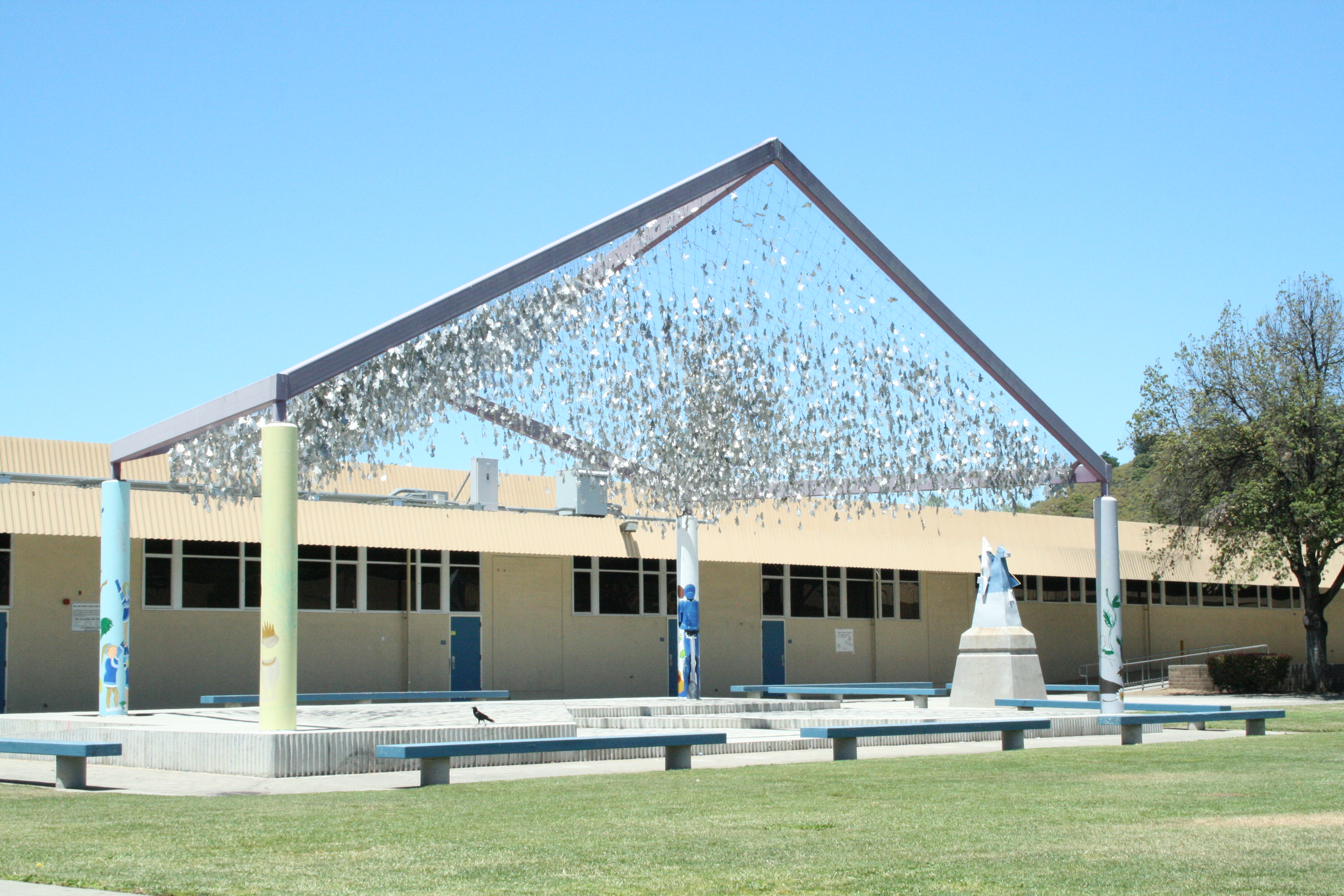 A shot of the quad at Leland High School in San Jose, California.